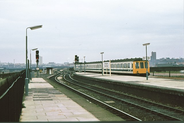 Birmingham Moor Street approaches 1980 A view along the lengthy viaduct approaches to Moor St